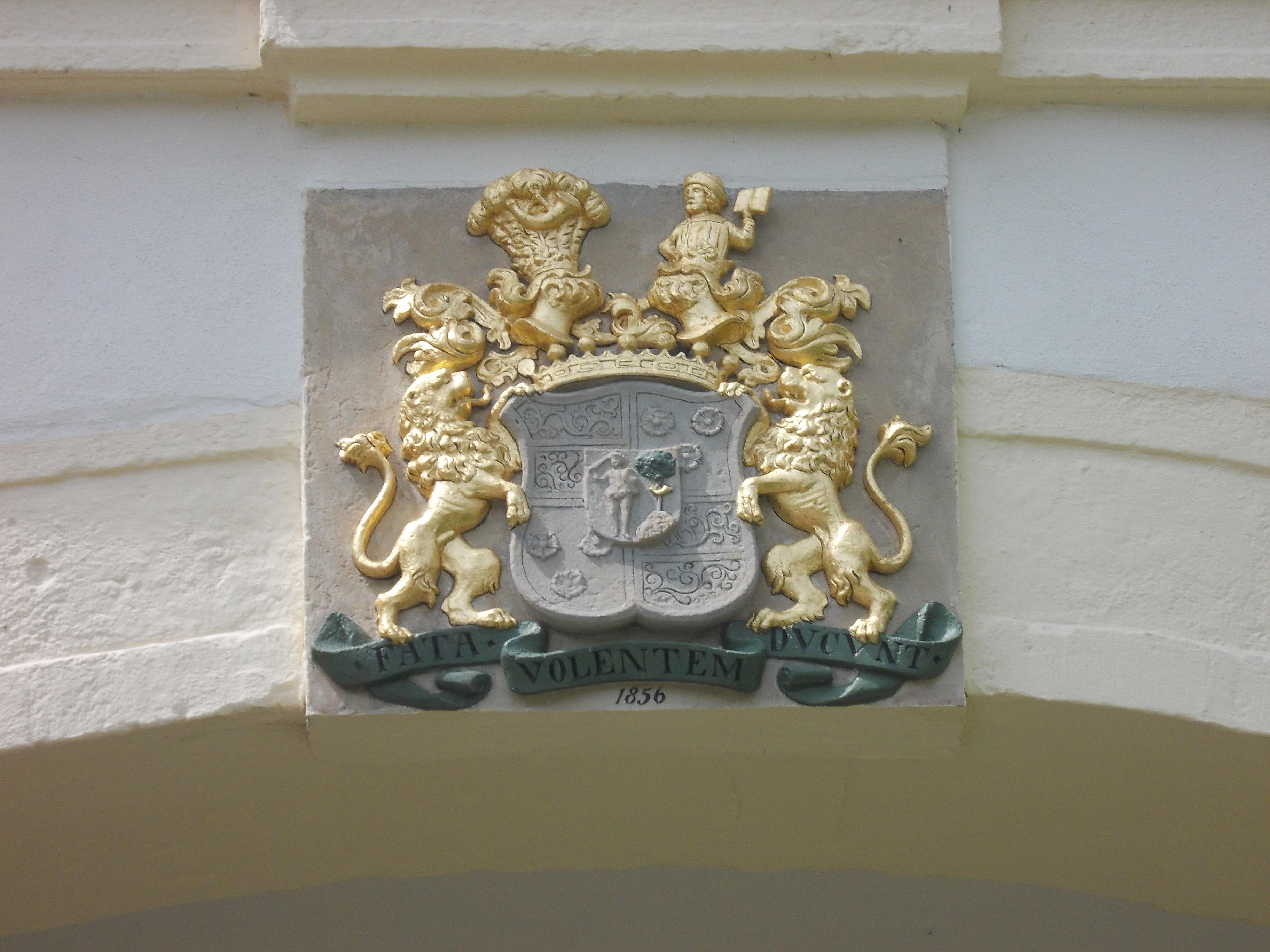 Wendischbora estate (Nossen, Meissen district, Saxony), coat of arms of the Wöhrmann family at the gatehouse